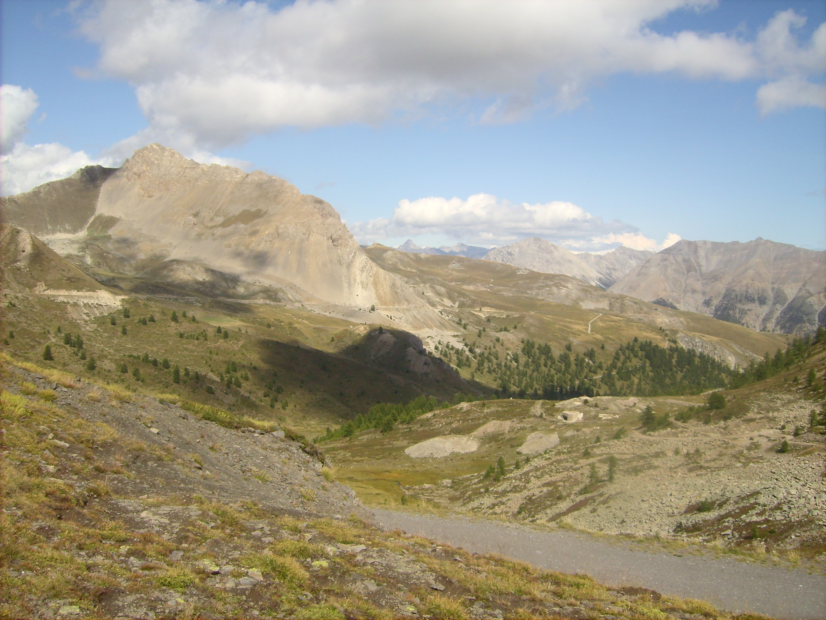 Col du Granon, Hautes-Alpes, France.